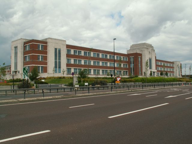 W.D. & H.O. Wills Building. The former Wills Factory is a listed Art Deco style building on the A1058 Coast Road in Newcastle upon Tyne designed for the Imperial Tobacco Company by its own architect Cecil Hockin in 1946. Converted into apartments in 1990/2000.